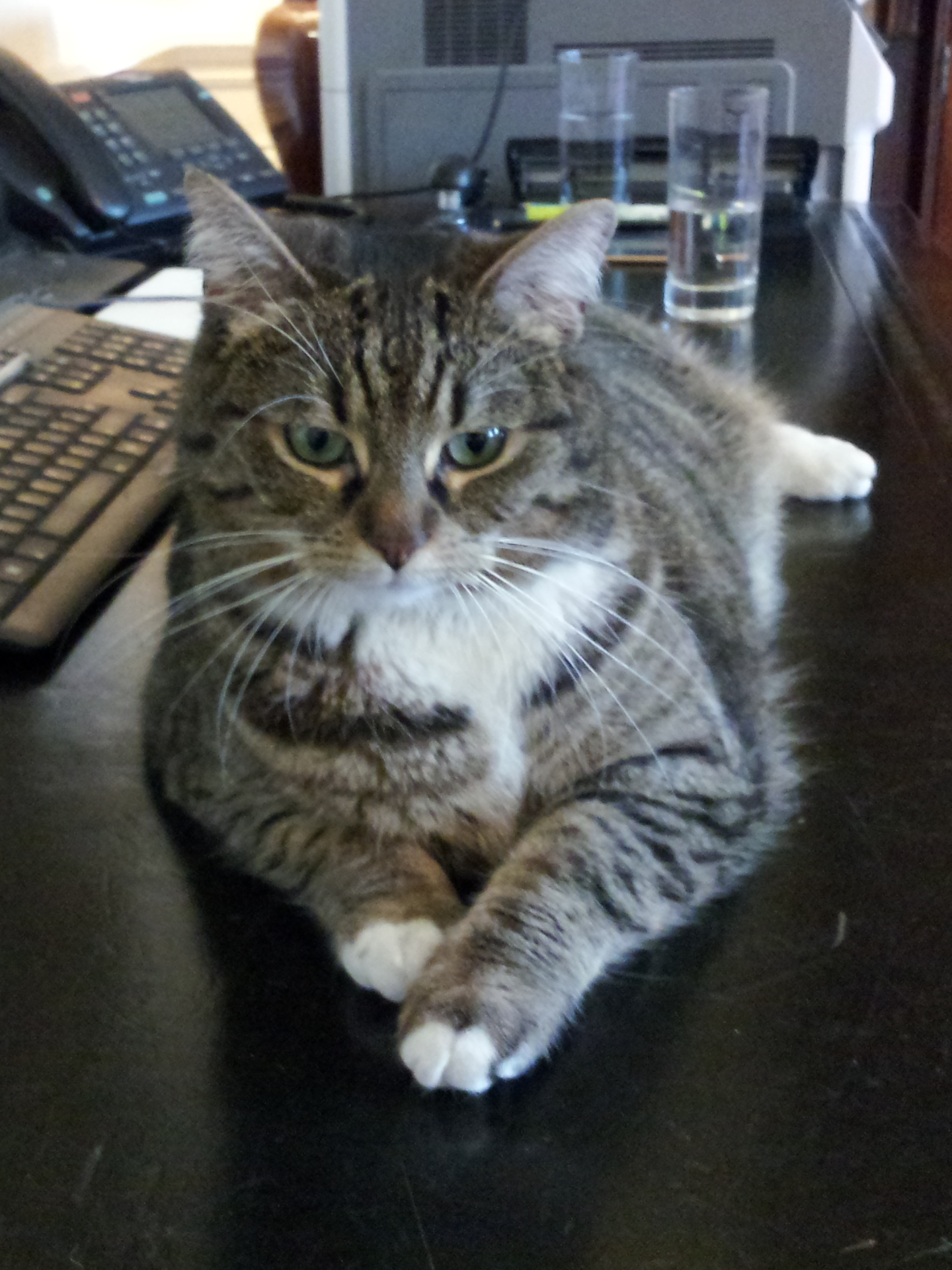 Tabby cat